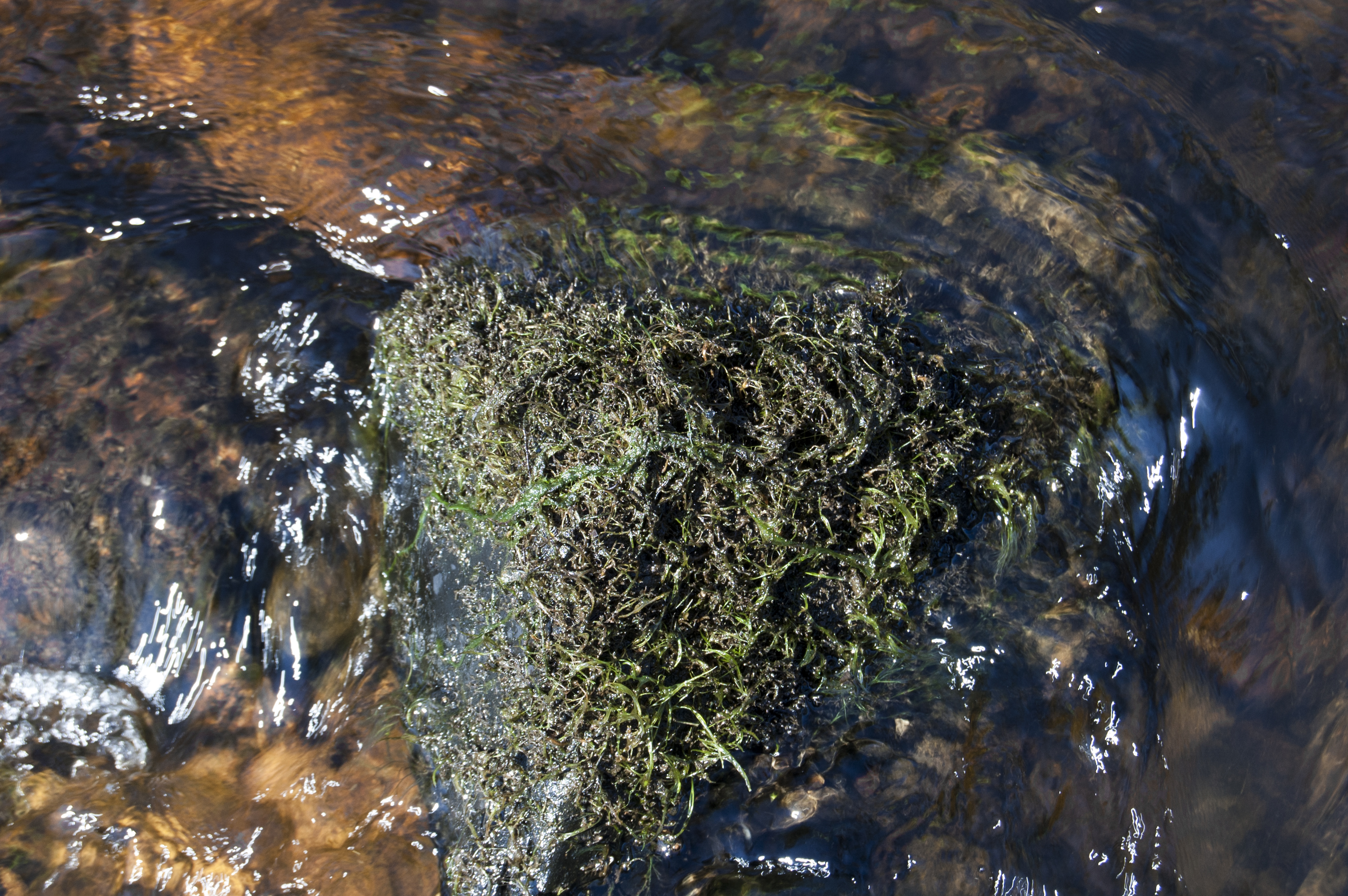 Day 1- Narraguagus River